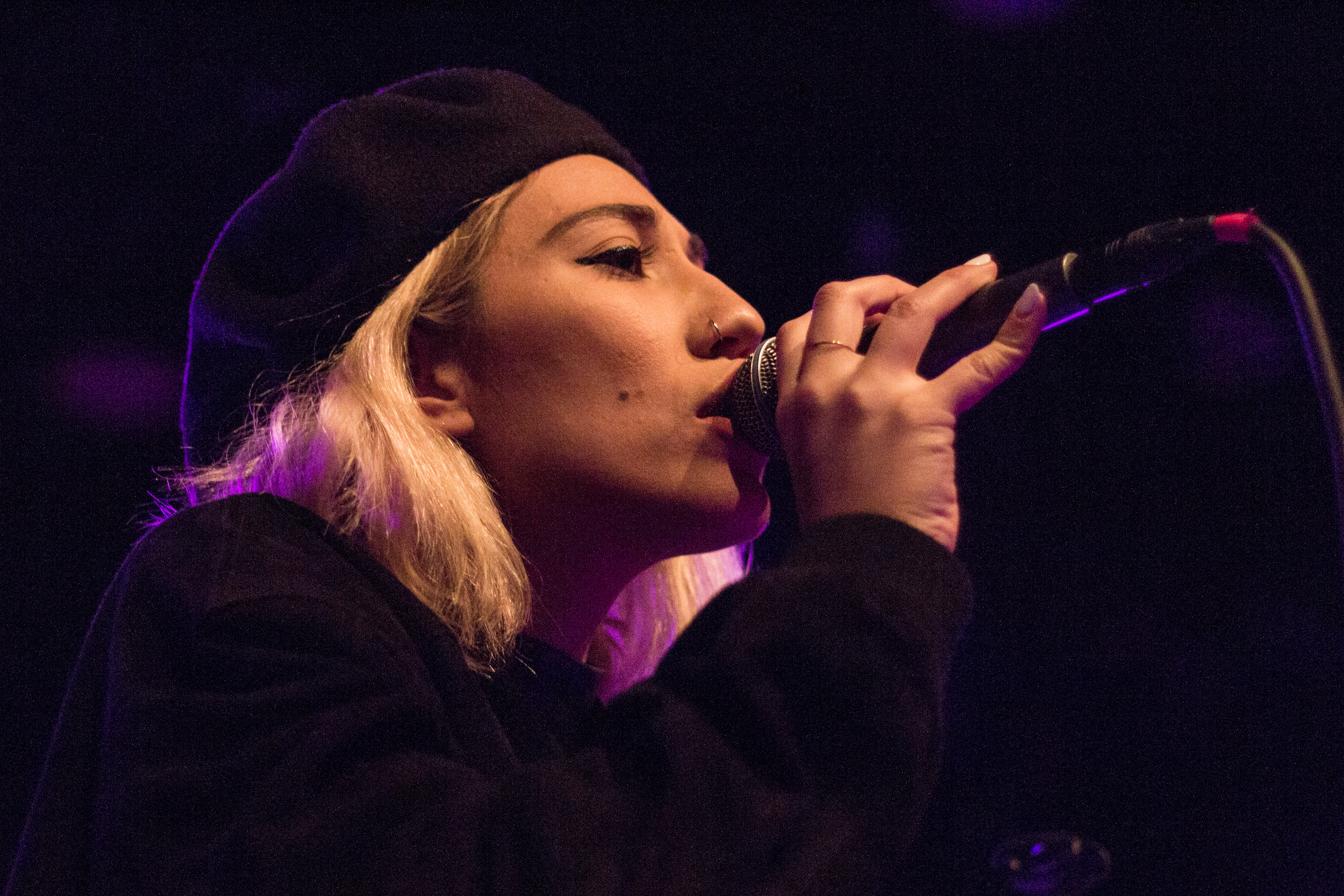 Tei Shi performing live at "London Calling loves Concerto" festival in Amsterdam in 2015